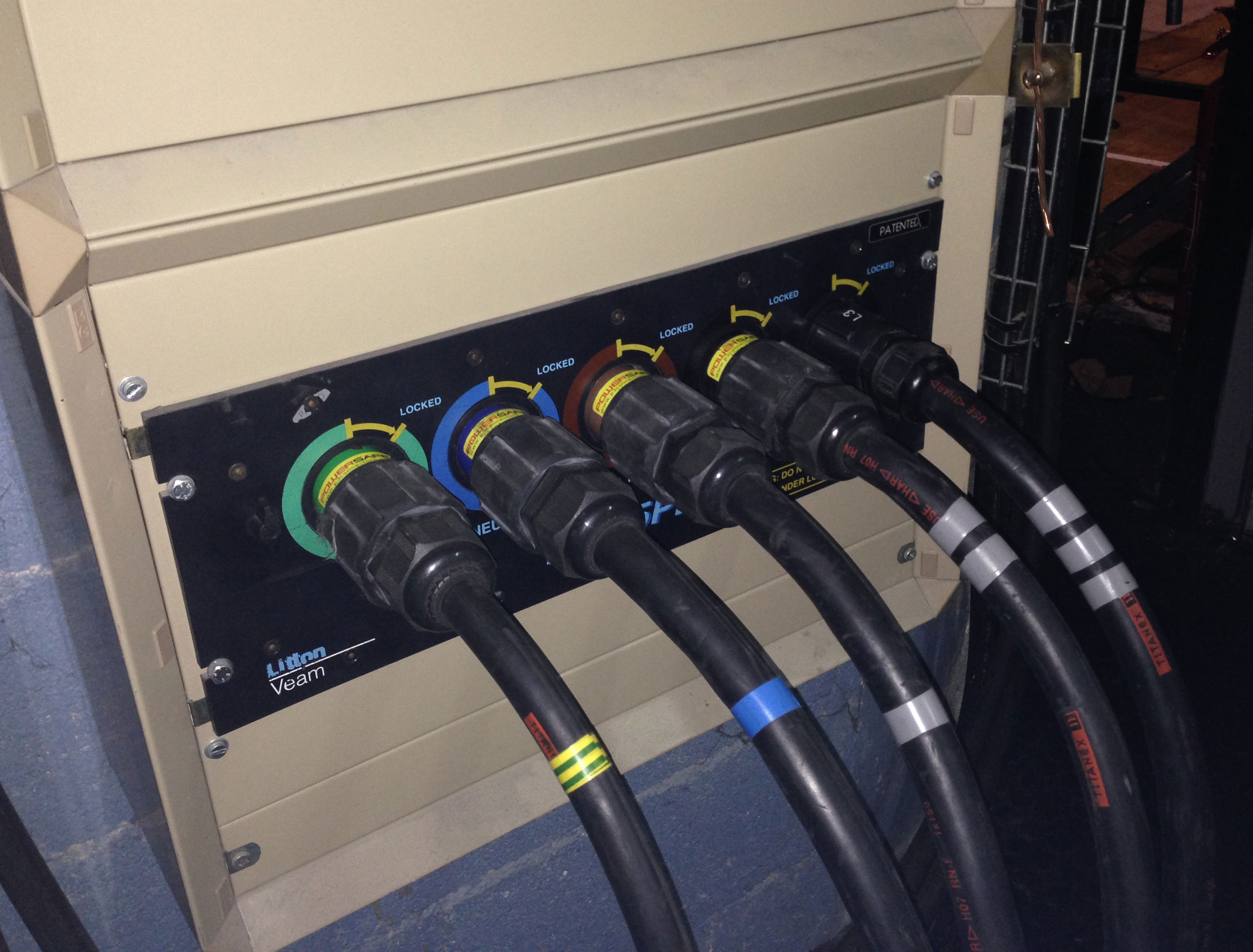 Veam Powerlock - Panel Source connectors mated with Line Drain connectors. 3P+N+E